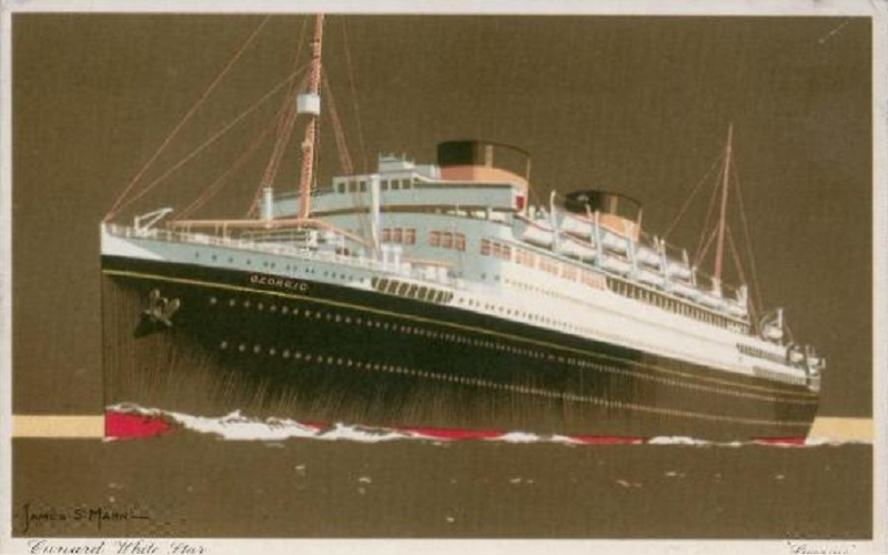 RMS Georgic LR/IMO number: 1162365